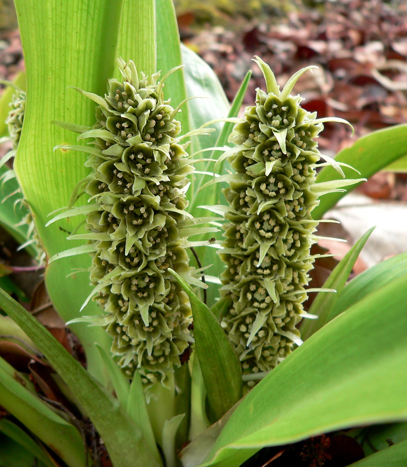 Photo of Campylandra chinensis at the University of California Botanical Garden